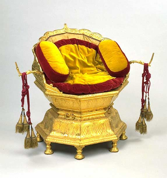 Maharaja Ranjit Singh's throne, about 1820-1830, Hafiz Muhammad Multani V&A Museum no. 2518(IS) Techniques - Wood and resin core, covered with sheets of repoussé, chased and engraved gold Place - Lahore, Pakistan Dimensions - Height 94 cm, Width 90 cm, Depth 77 cm, Height 51 cm (seat)